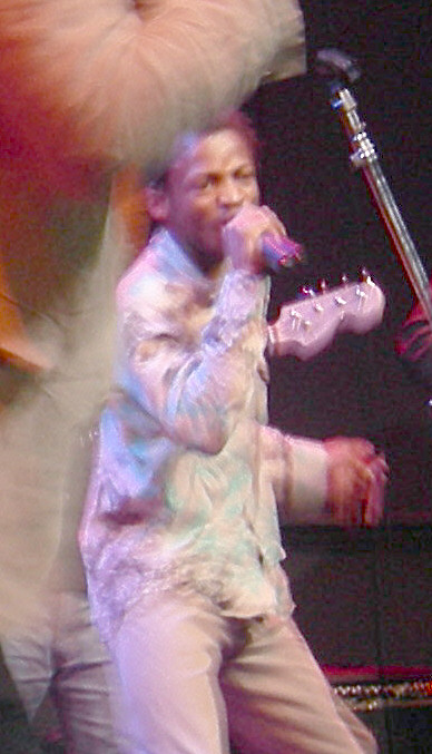 Congolese dancer/choreogropher Faustin Linyekula onstage with Wawile Bonane and band (Soukous band based in Tacoma, Washington, USA) performing in Seattle, Washington as part of Linyekula's Festival of Lies.